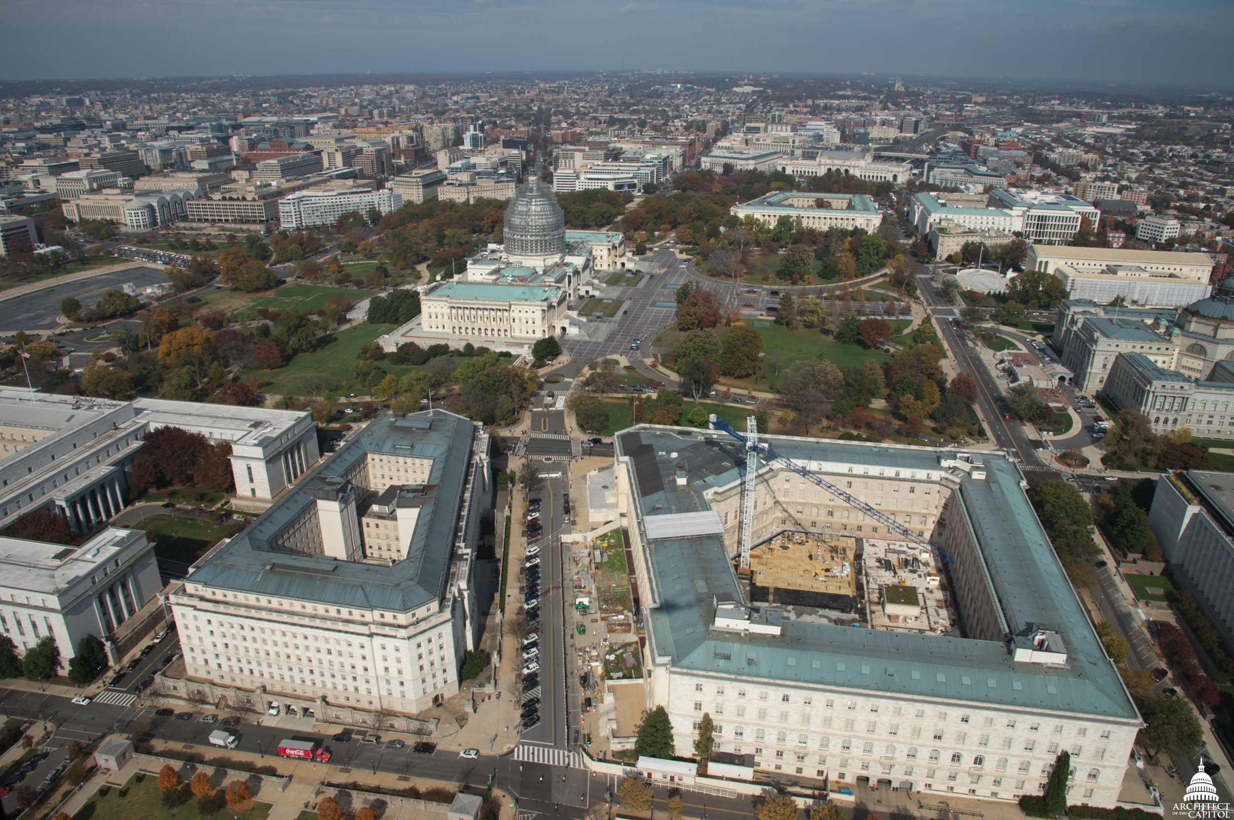 Work during the initial phase of the Cannon Renewal Project includes updating building utilities, primarily in the basement and the moat area of the courtyard. This phase enables future phases to connect the new building-wide utility services with minimal shutdowns and disturbances. More at This official Architect of the Capitol photograph is being made available for educational, scholarly, news or personal purposes (not advertising or any other commercial use). When any of these images is used the photographic credit line should read “Architect of the Capitol.” These images may not be used in any way that would imply endorsement by the Architect of the Capitol or the United States Congress of a product, service or point of view. Aerial Media Services